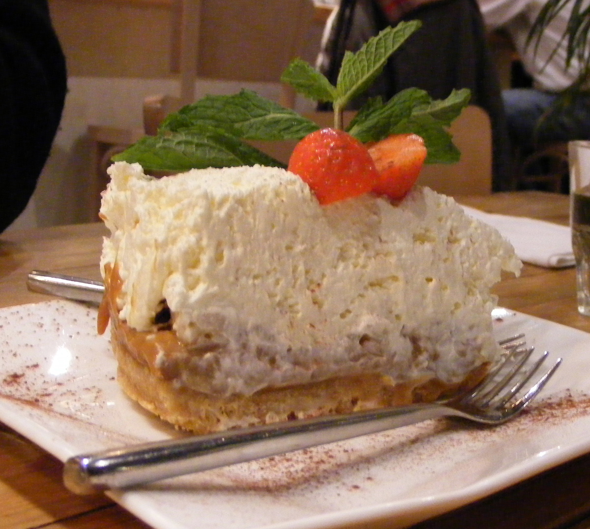 Not very delicate, but really delicious! And I forgive them for the ridiculous mint-tree on top. :D I would go back for this on an afternoon and sit with a cop of coffee glazing over the water. Restaurant Odyssee, Rotterdam.